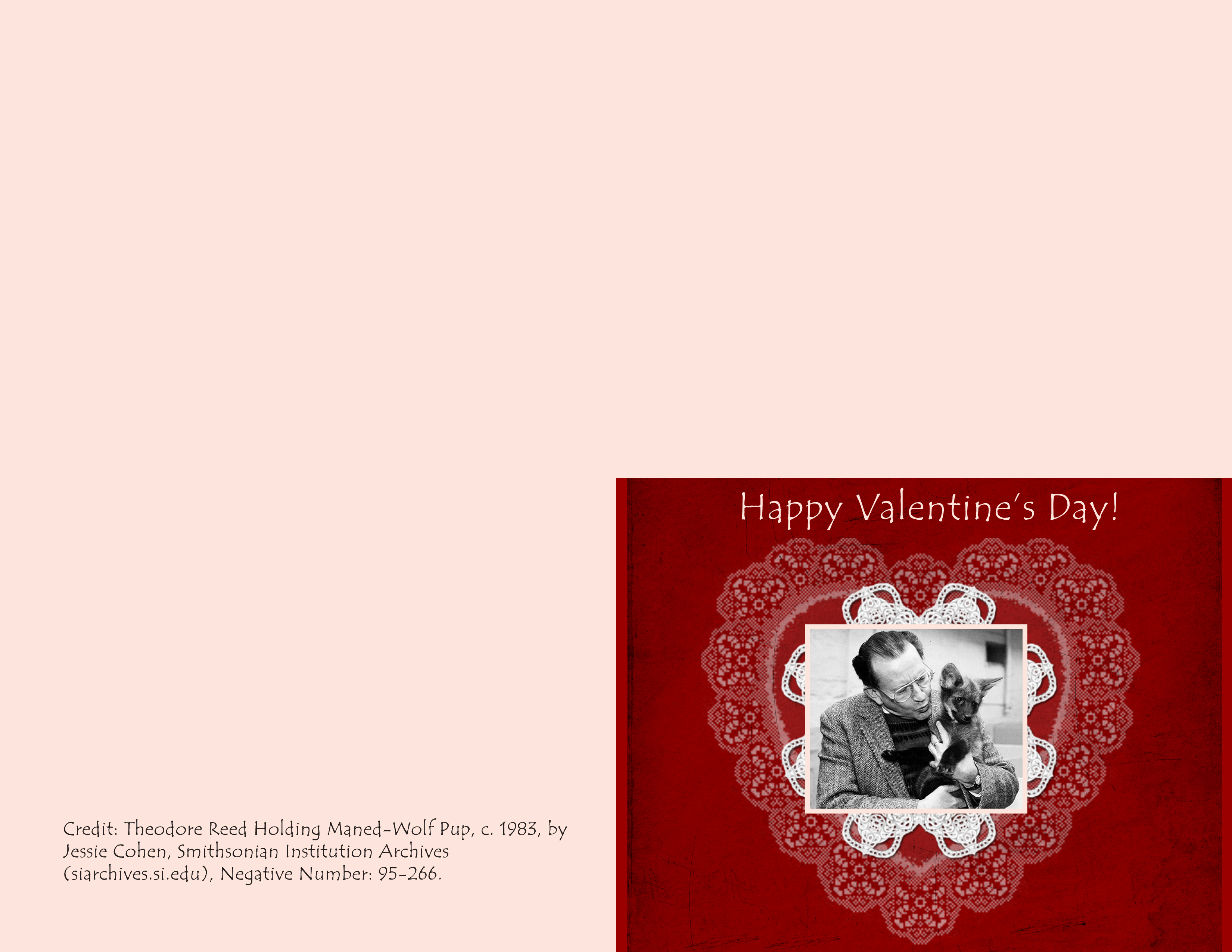 Instructions: Print out this template and fold it twice (once horizontally, once vertically.) If you come up with any fun captions, please share them on this related blog post